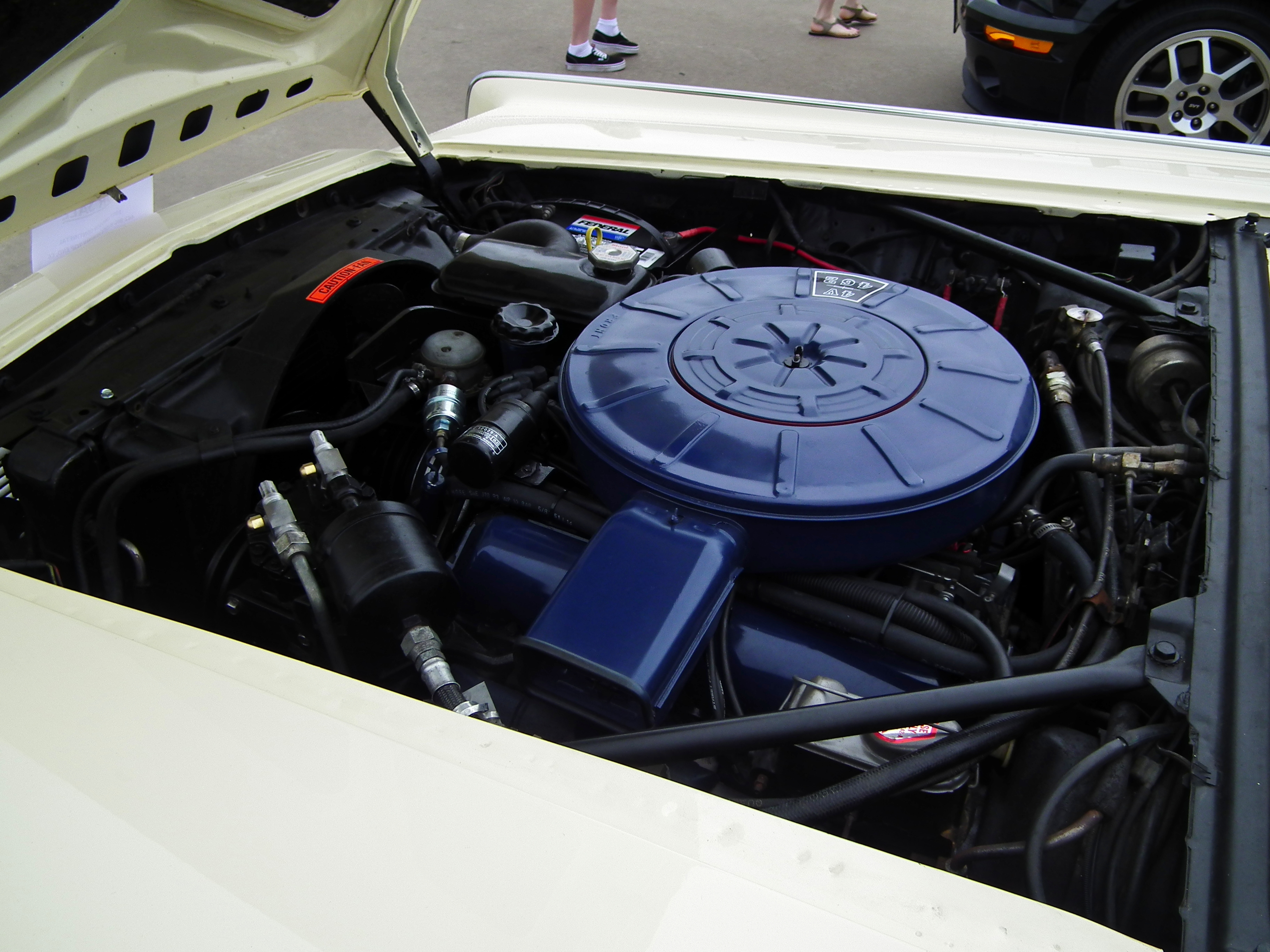 1967 Lincoln Continental coupe engine. Taken at the 2013 New South Wales All American Day, held at Castle Towers Shopping Centre, Castle Hill, Sydney.